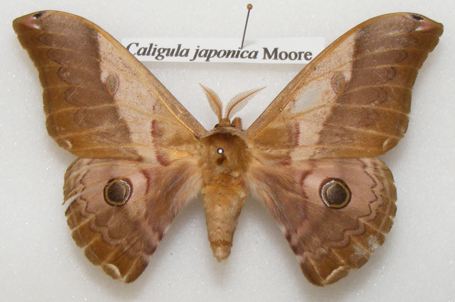 Caligula japonica adult male from the Texas A&M University Insect Collection